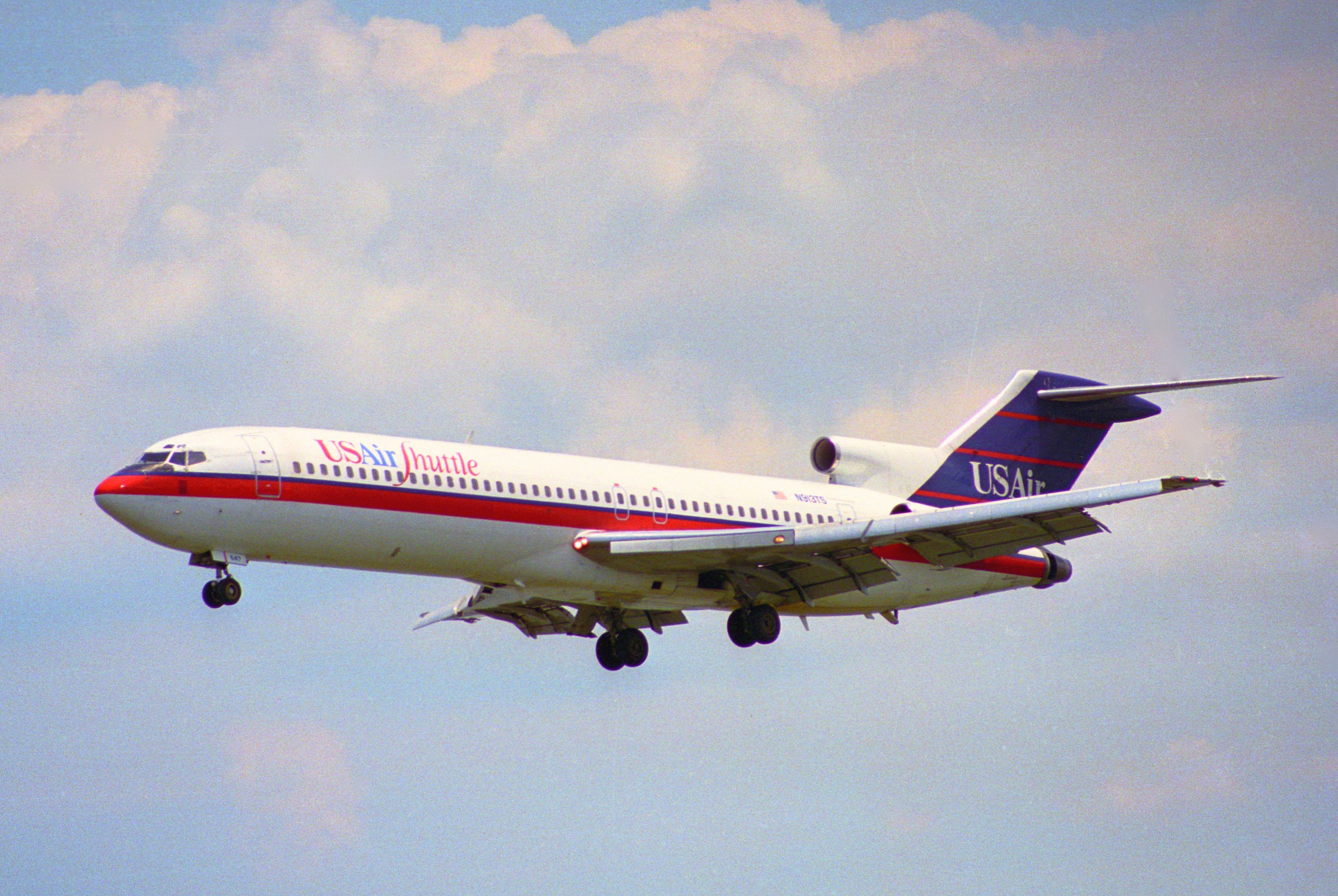 This Boeing 727-254 took its first flight on March 25, 1970 and was subsequently delivered to PSA (Pacific Southwest Airlines) as N536PS. In 1981, the three-holer was taken up by Eastern Air Lines (changing the registration in 1986 to N536EA). In 1989 the 727 was integrated into Trump Shuttle, as N913TS. In 1992 Trump Shuttle became US Air Shuttle - with whom the Boeing remained until 1999. In 2001 the trijet was broken up at Mojave (MHV)...